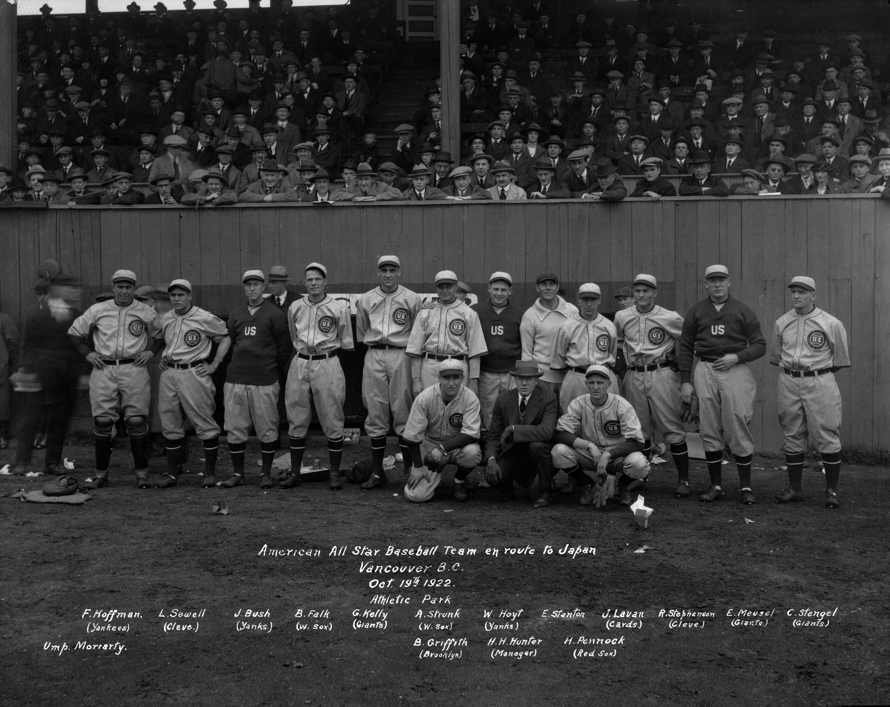 American All Star Baseball Team en route to Japan . Group portrait at Athletic Park showing: F. Hoffman, L. Sewell, J. Bush, B. Falk, G. Kelly, A. Strunk, W. Hoyt, E. Stanton, J. Lavan, R. Stephenson, E. Meusel, C. Stengel, Moriarity, B. Griffith, H.H. Hunter and H. Pennock